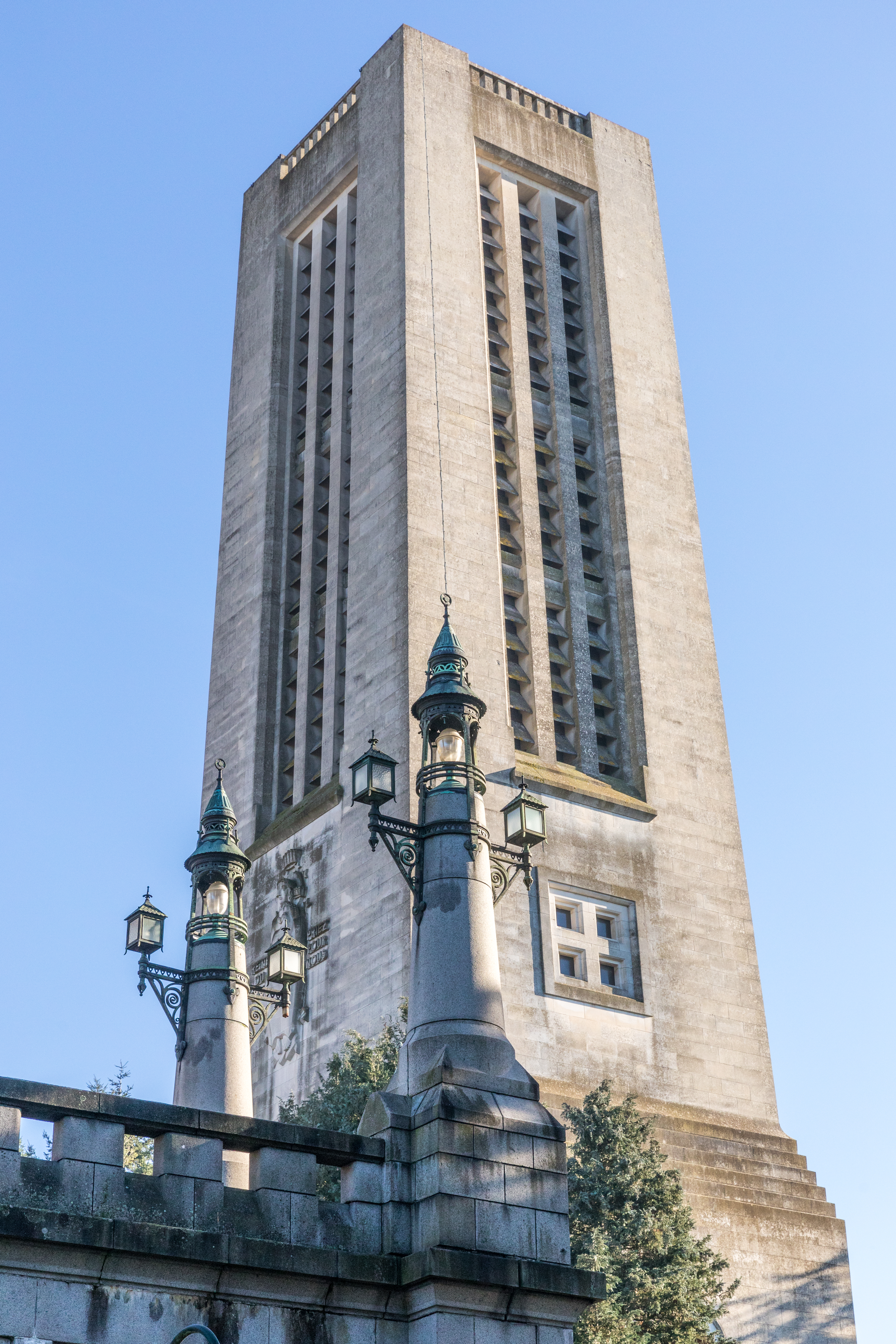 Bell tower of Basilique Sainte-Thérèse de Lisieux